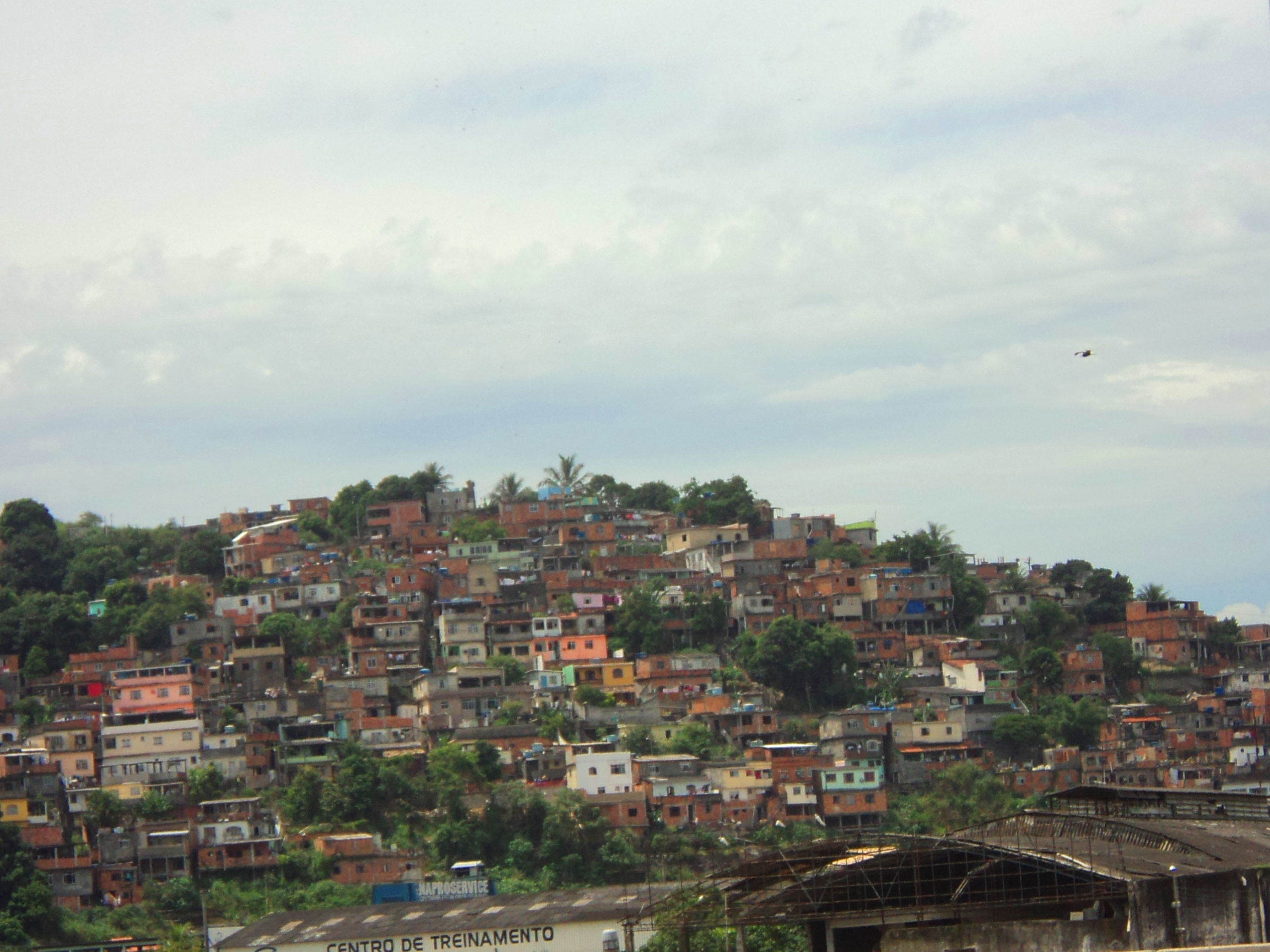 Slums in Niterói, Rio de Janeiro, Brazil.